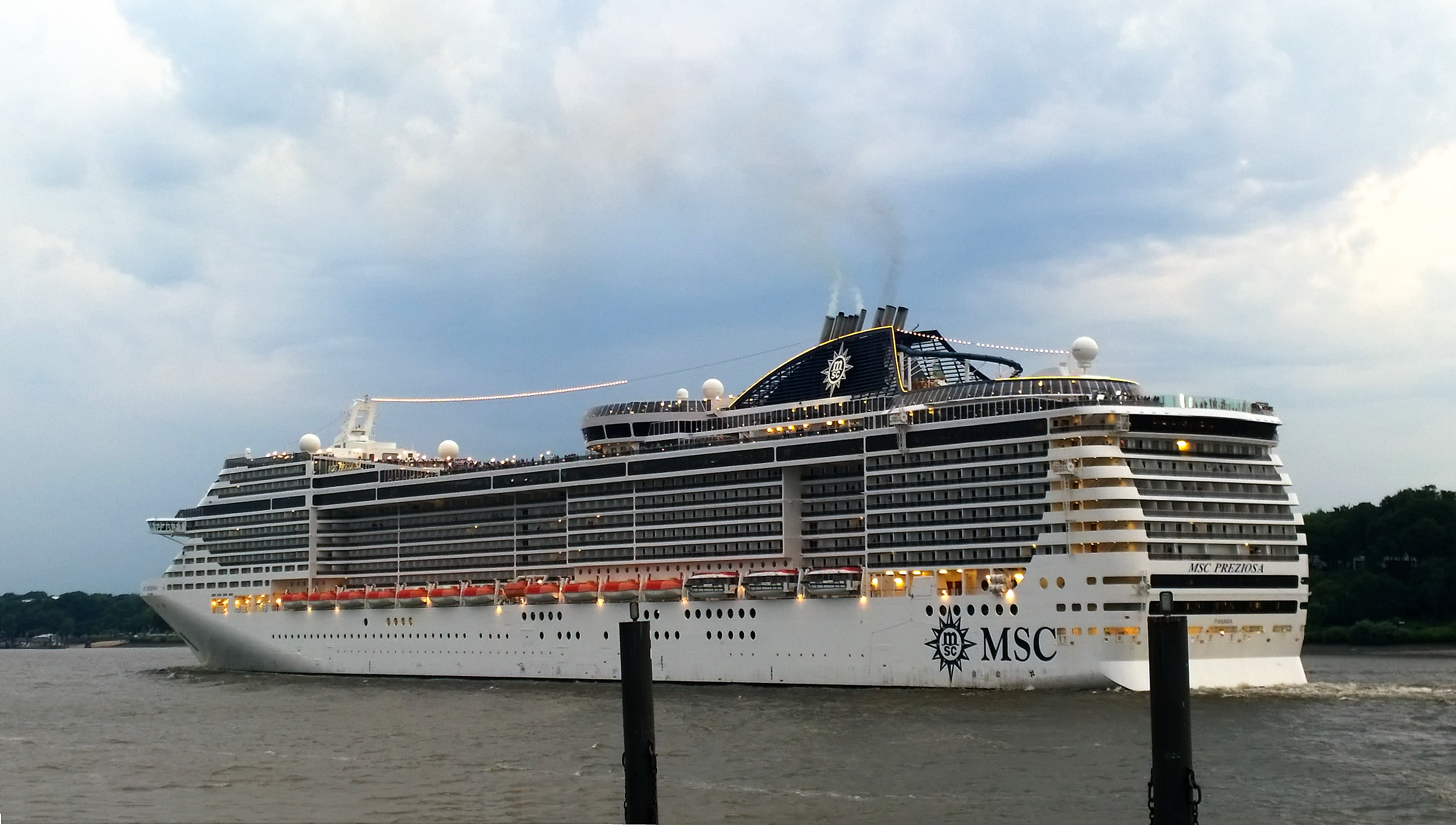 Passenger ship MSC Preziosa coming from Hamburg on the river Elbe